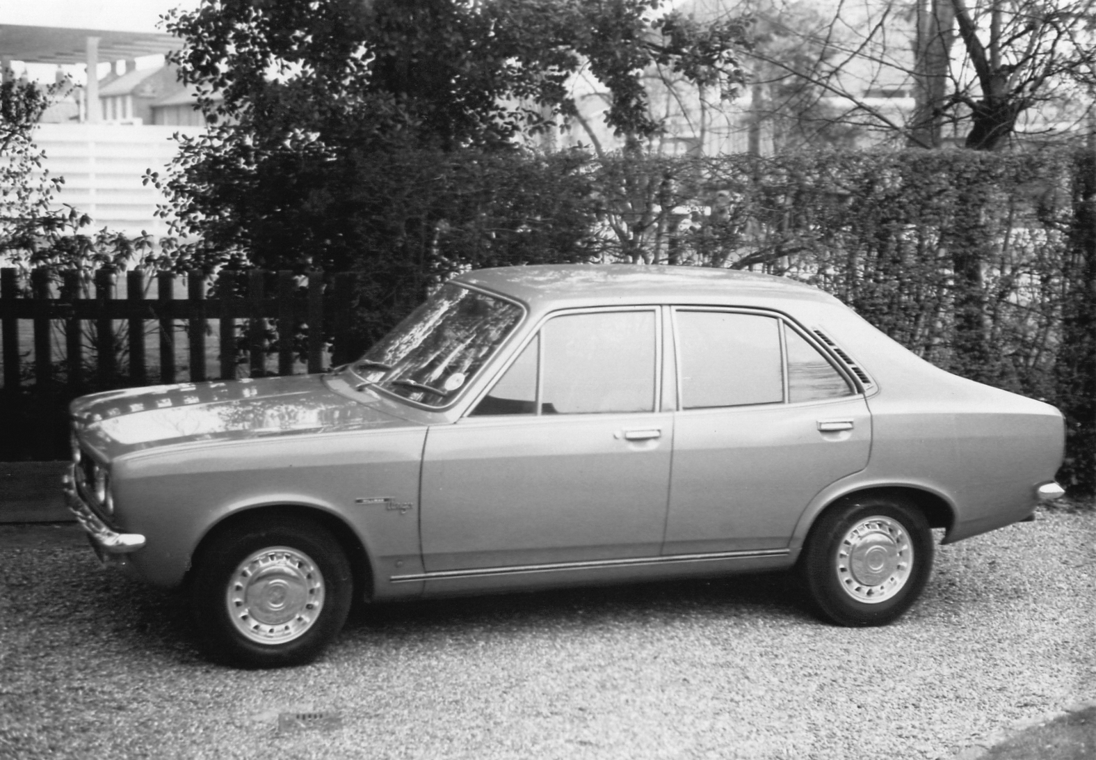 A J registration 1970 Hillman Avenger GL. This car was gold coloured and had an automatic gearbox.